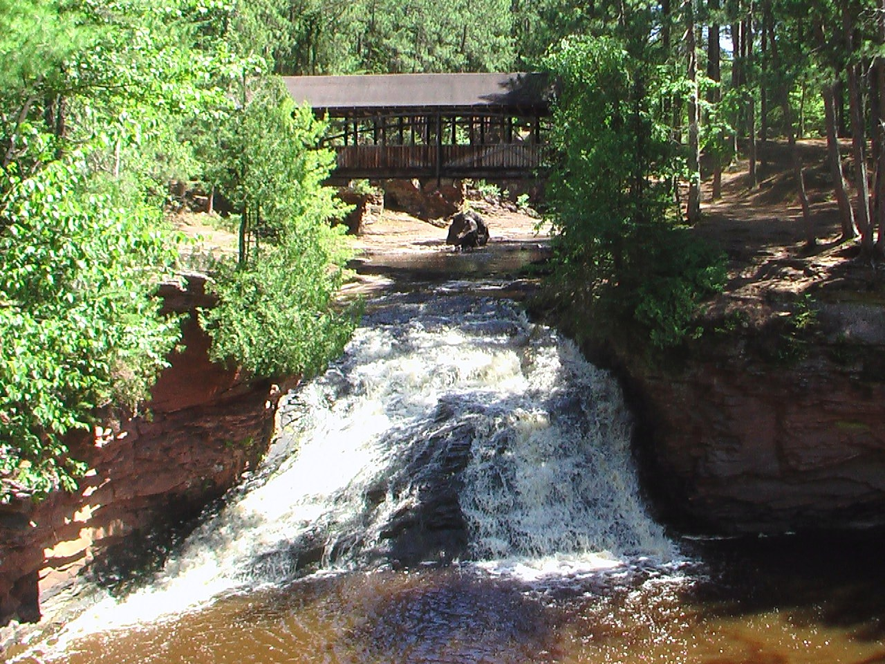 The lower falls under teh covered bridge.